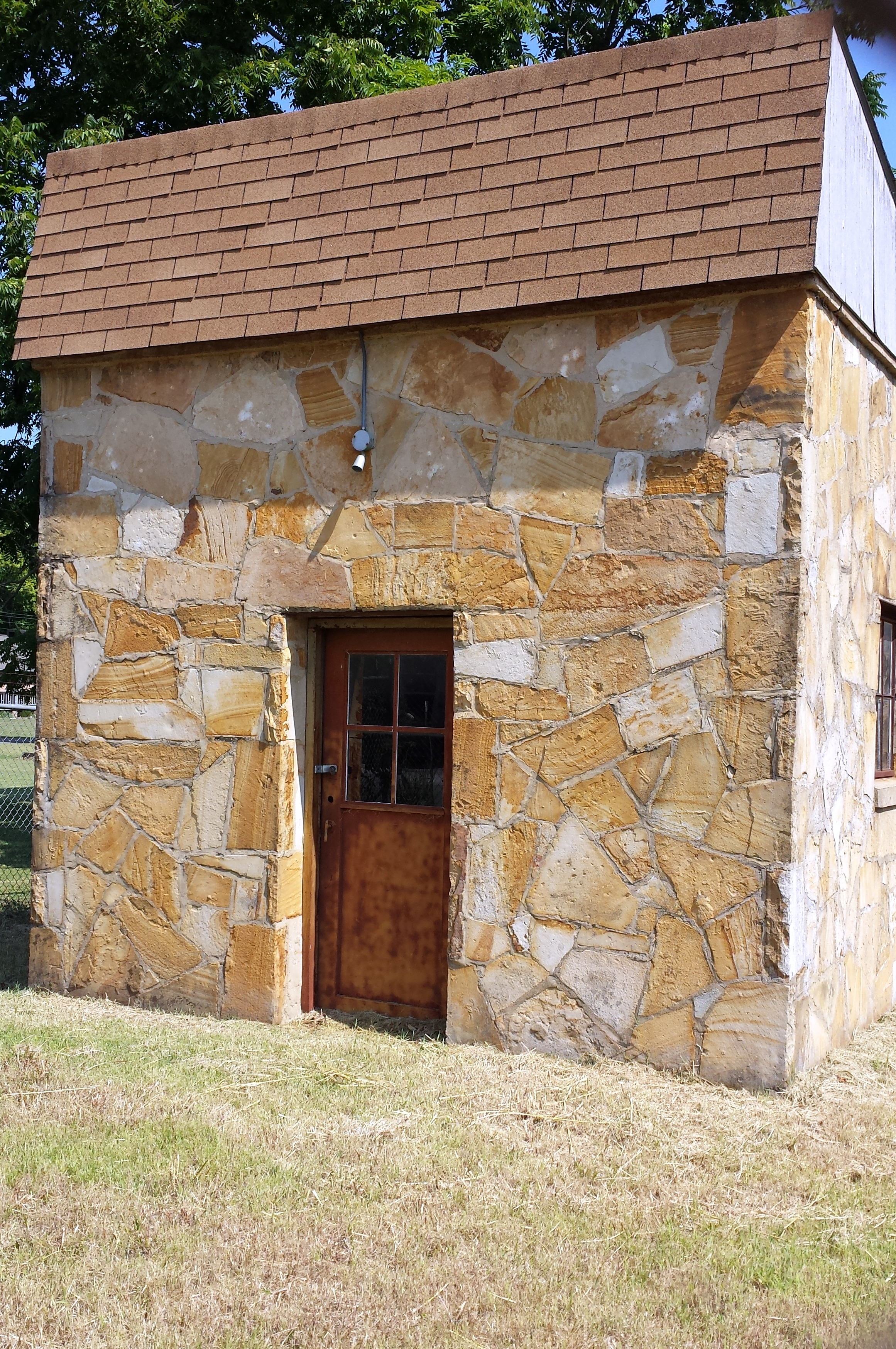 Building on water tower site